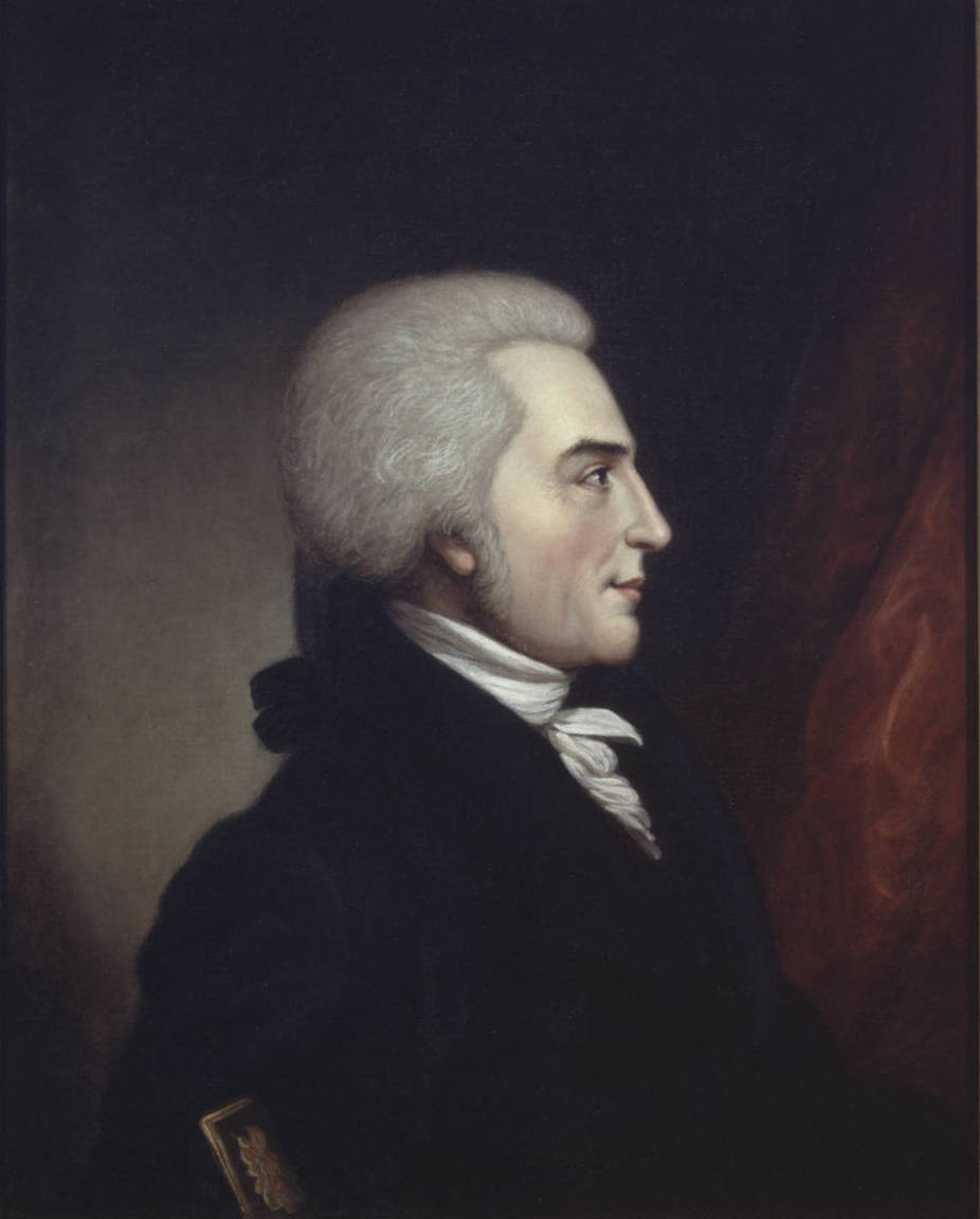 William R. Davie (1756-1820) Subject Davie, William Richardson, 1756-1820.; Peale, Charles Willson, 1741-1827. Creator Peale, Charles Willson, 1741-1827. Source Names Across the Landscape - Slide 040; Early Benefactors - Slide 02; Davie and the University's Founding - Slide 17 Relation 02-DaviePortrait_frame.jpg Format Portrait paintings Identifier